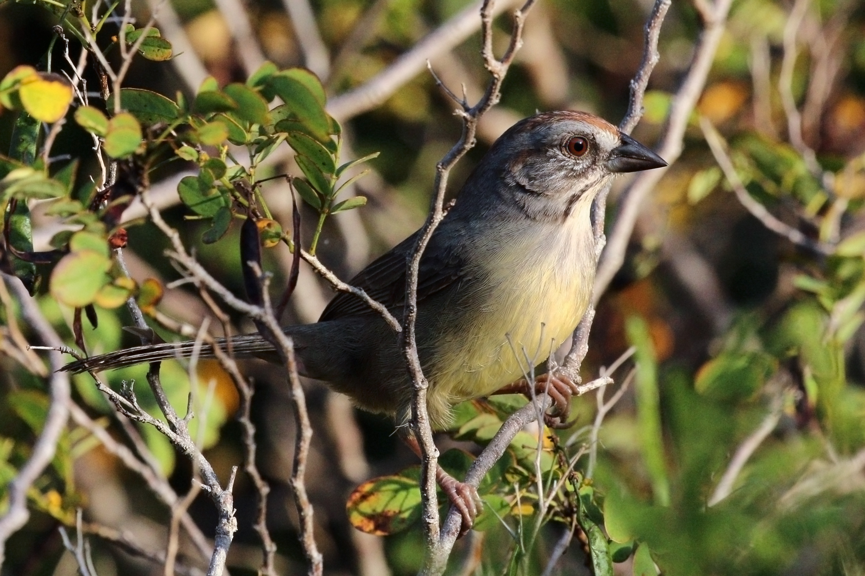 Zapata sparrow (Torreornis inexpectata varonai), Cayo Romano, Cuba